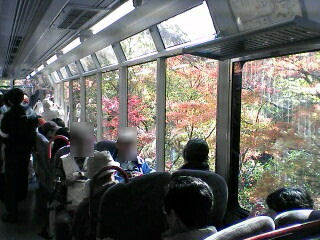 Inside Eizan Electric Railway Type Deo 900 passing "maple tree tunnel" between Ninose and Ichihara